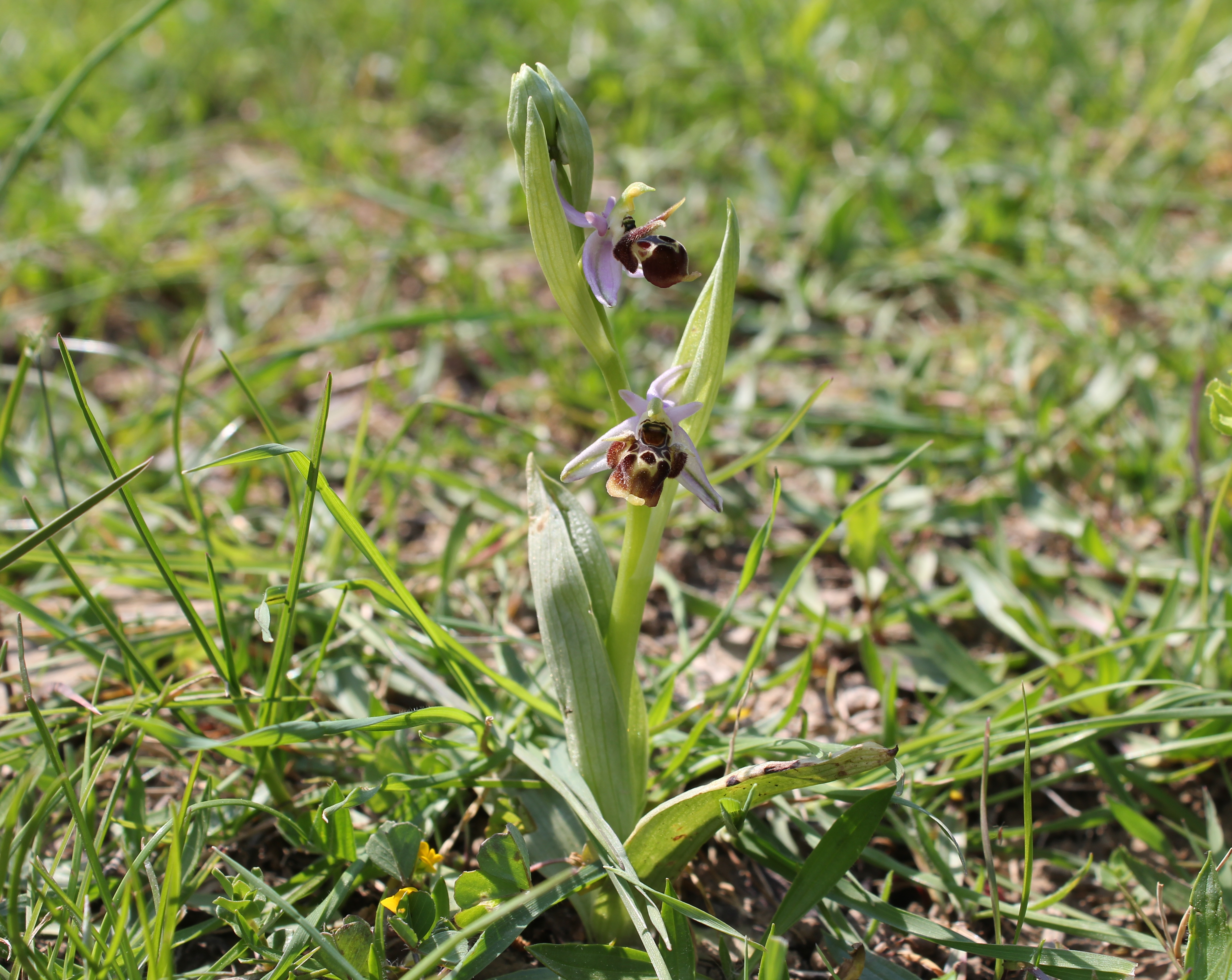 Ophrys oestrifera scape